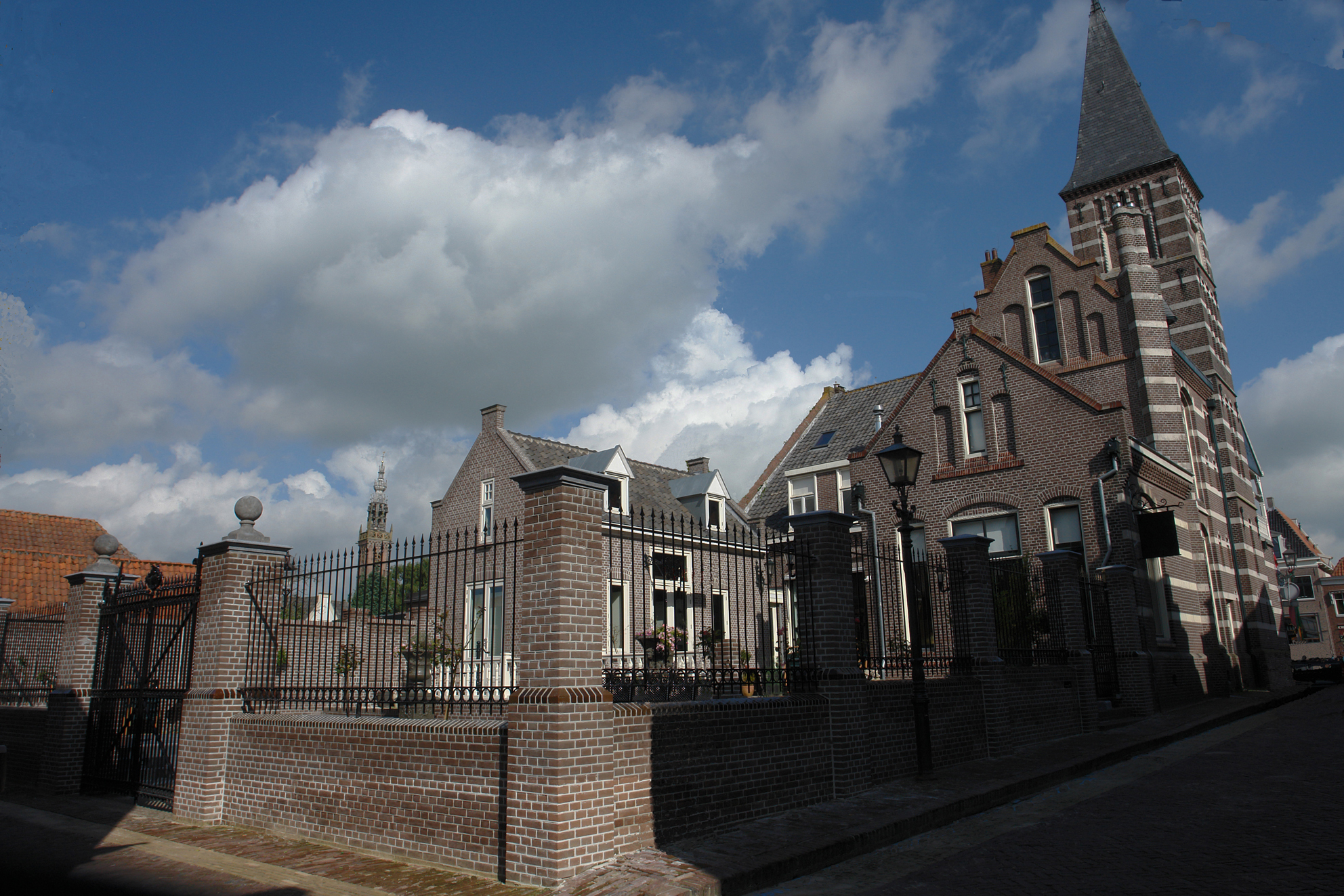 The former post office from architect C.H. Peters: Petersburch